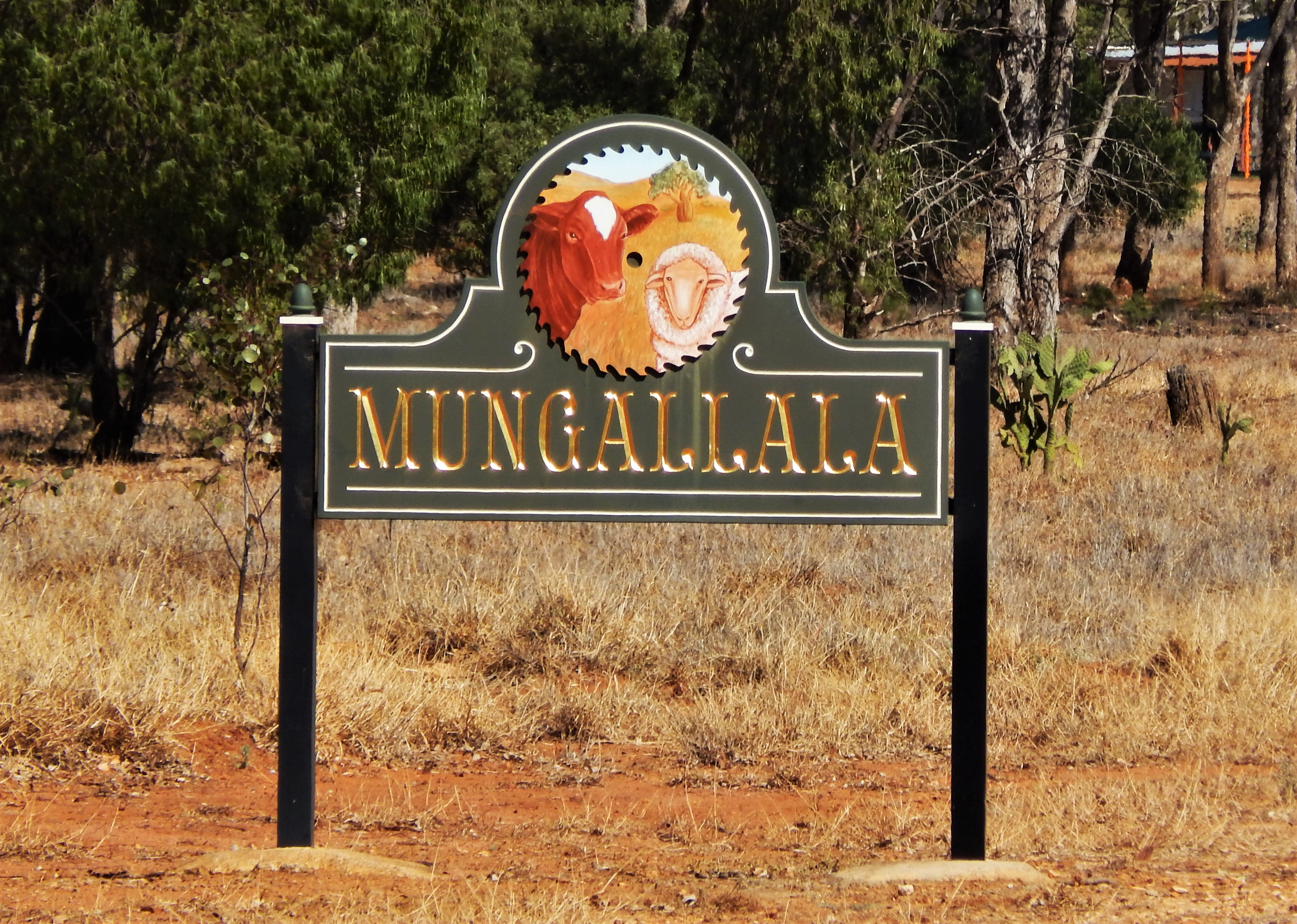 The Mungallala sign at the eastern entrance of the township of Mungallala